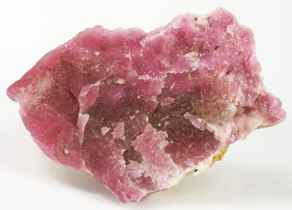 Calcite (Var.: Cobaltoan Calcite) Locality: Solita Mine, Peramea, Baix Pallars, Pallars Sobirà, Lleida (Lérida), Catalonia, Spain (Locality at ) Size: 7.0 x 3.4 x 2.5 cm. Vivid pink to purple, translucent, botyroidal cobaltoan calcite encrusts poorly sorted conglomerate matrix on this striking and pretty old-time specimen from a long-closed Spanish locale - the Solita Mine in Catalonia. Rare and seldom available. Ex. Dennis Mullane Collection and comes with an old faded label.